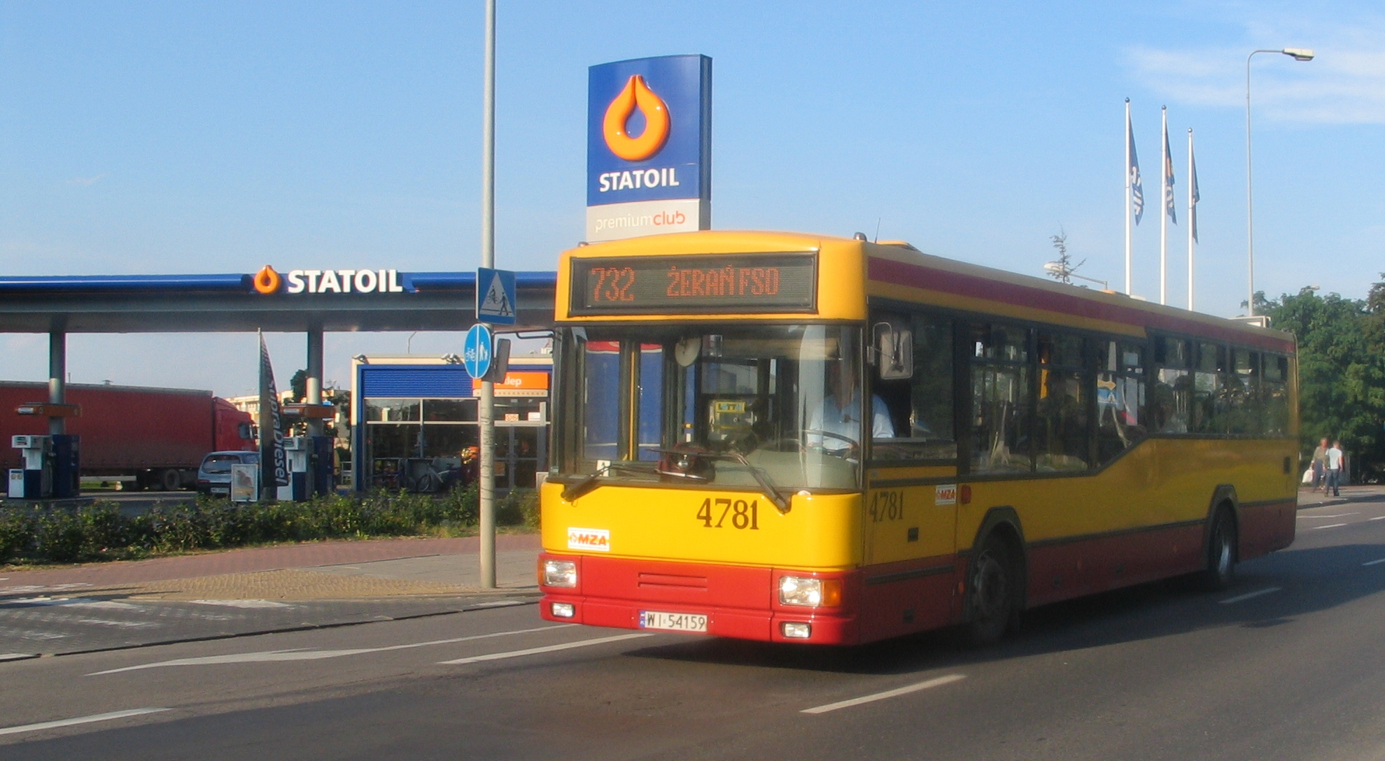 A bus Jelcz M121M (MAN engine, #4781) in front of Statoil station in Warsaw, Poland. Bus built in 1997, MZA Warszawa operator.